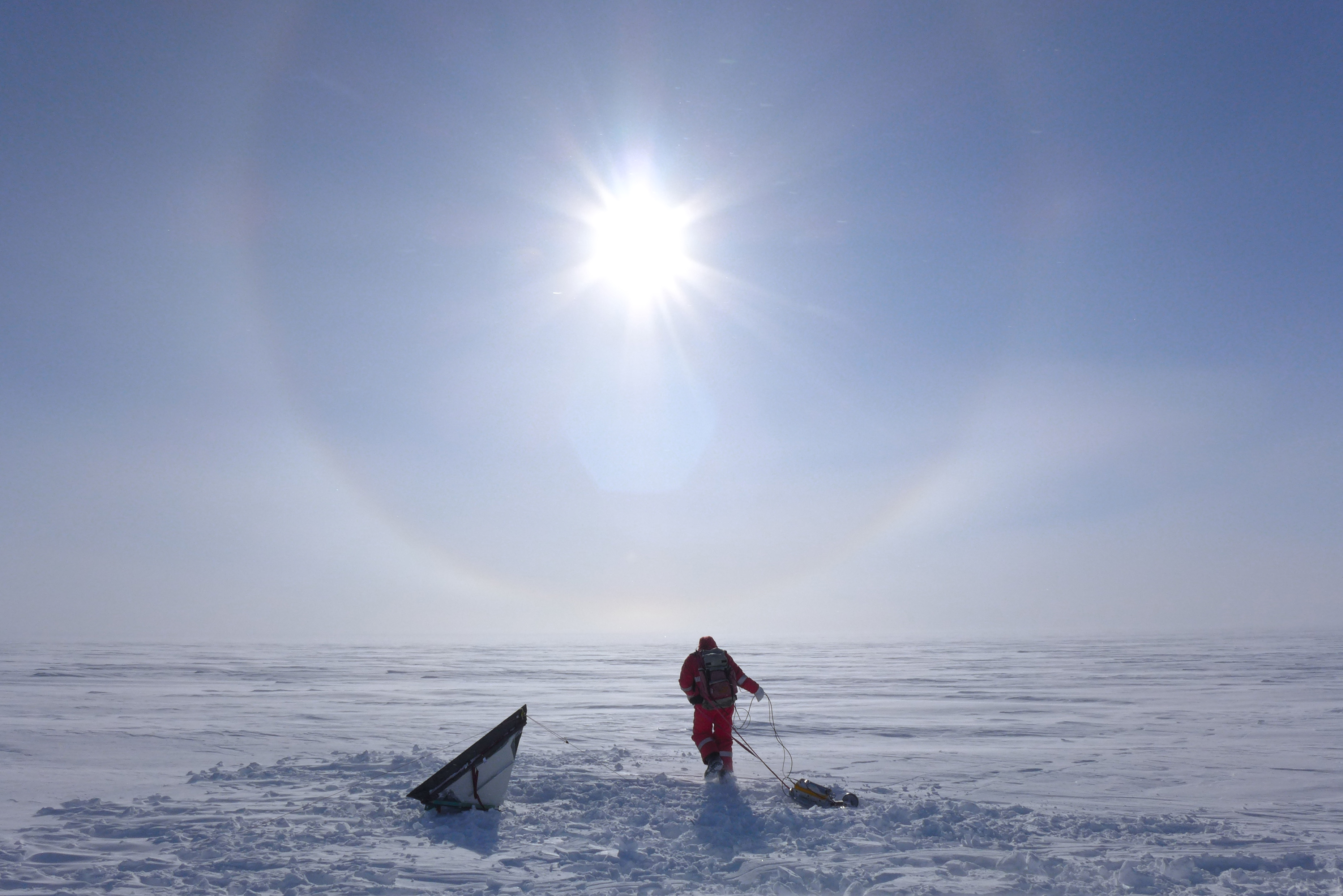 Nach Installation eines Radarreflektors beginnt ein Wissenschaftler mit der Aufnahme eines Radarprofils auf dem westgrönländischen Eisschild.